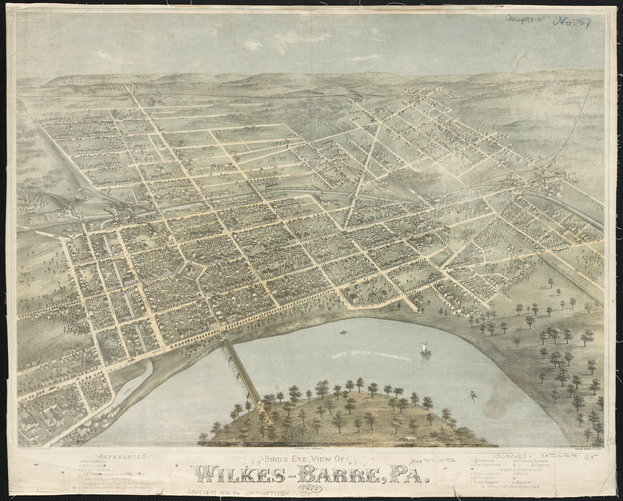 Zoom into this map at . Author: Fowler & Bailey. Publisher: Fowler & Bailey Date: 1872 Location: Wilkes-Barre (Pa.) Scale: Not drawn to scale. Call Number: G3824.W6A3 1872.F6